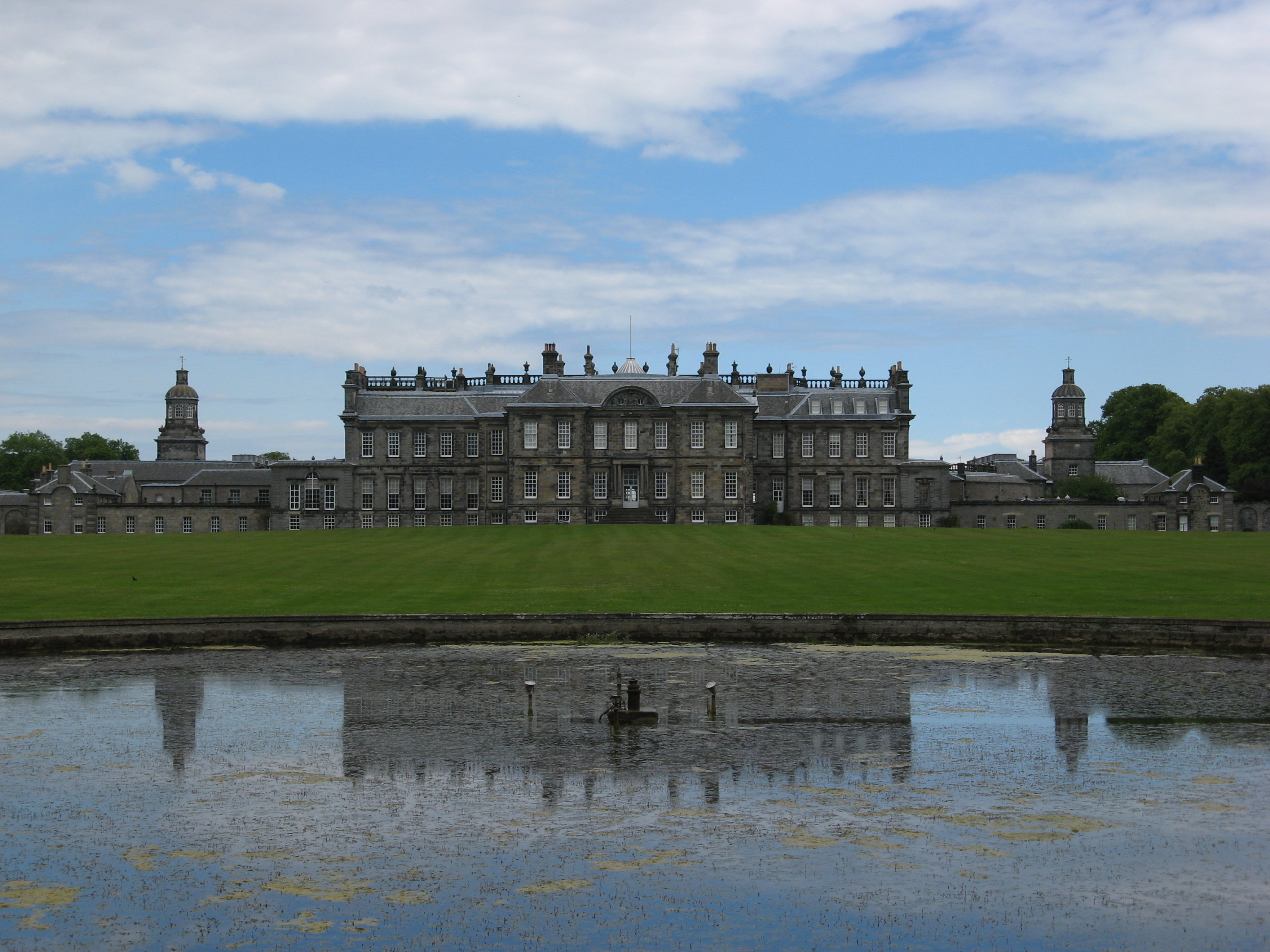 Hopetoun House, near South Queensferry, Scotland. West or garden front.